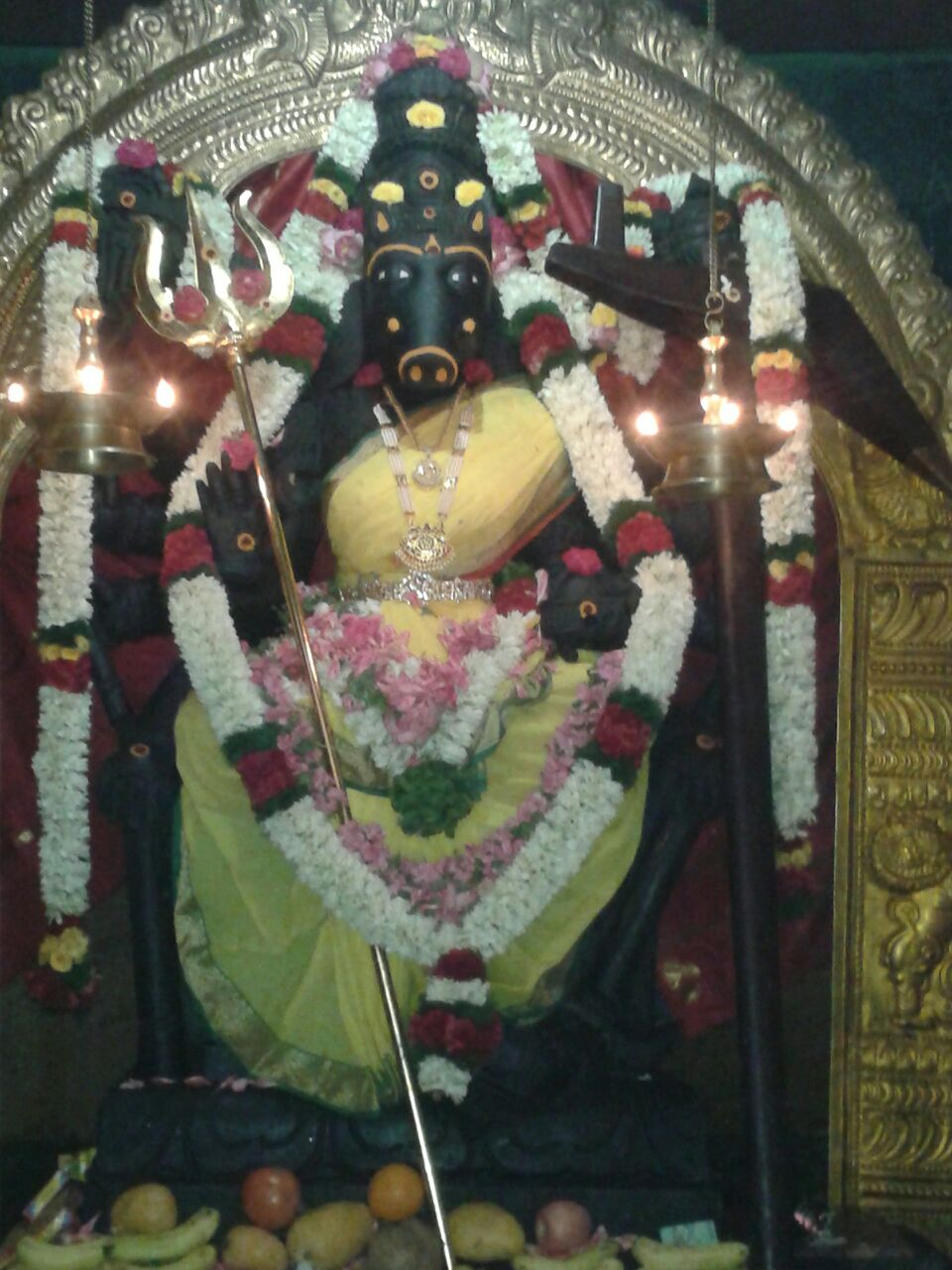 Maha varahi temple at Varahi manthralayam ,Swamy thotam near to UIT college